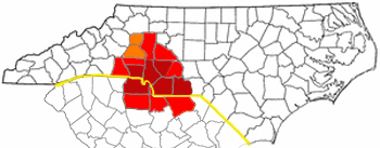 CSA and MSA of the Metrolina area.